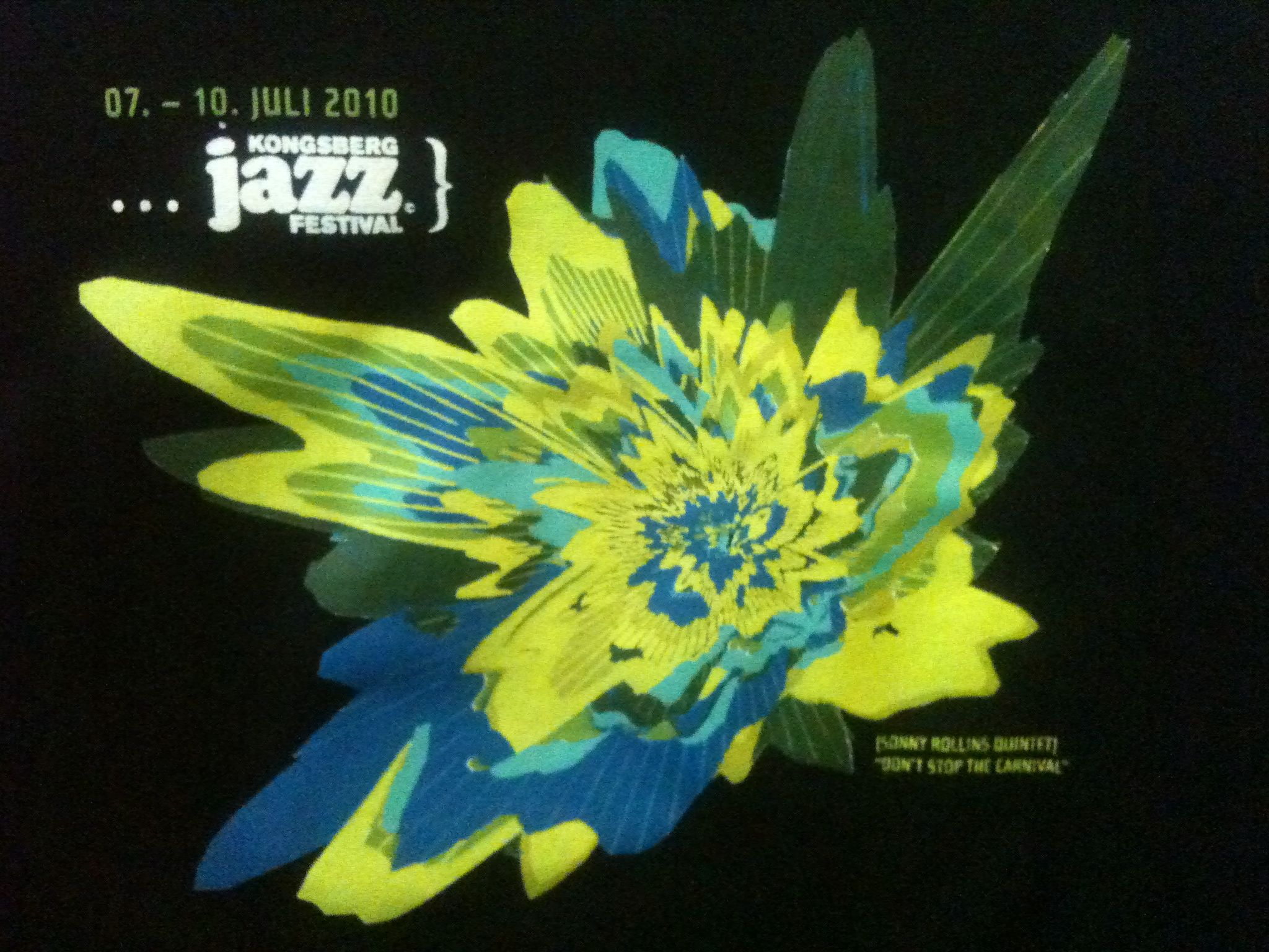 T-shirt symbol for Kongsberg Jazzfestival 2010